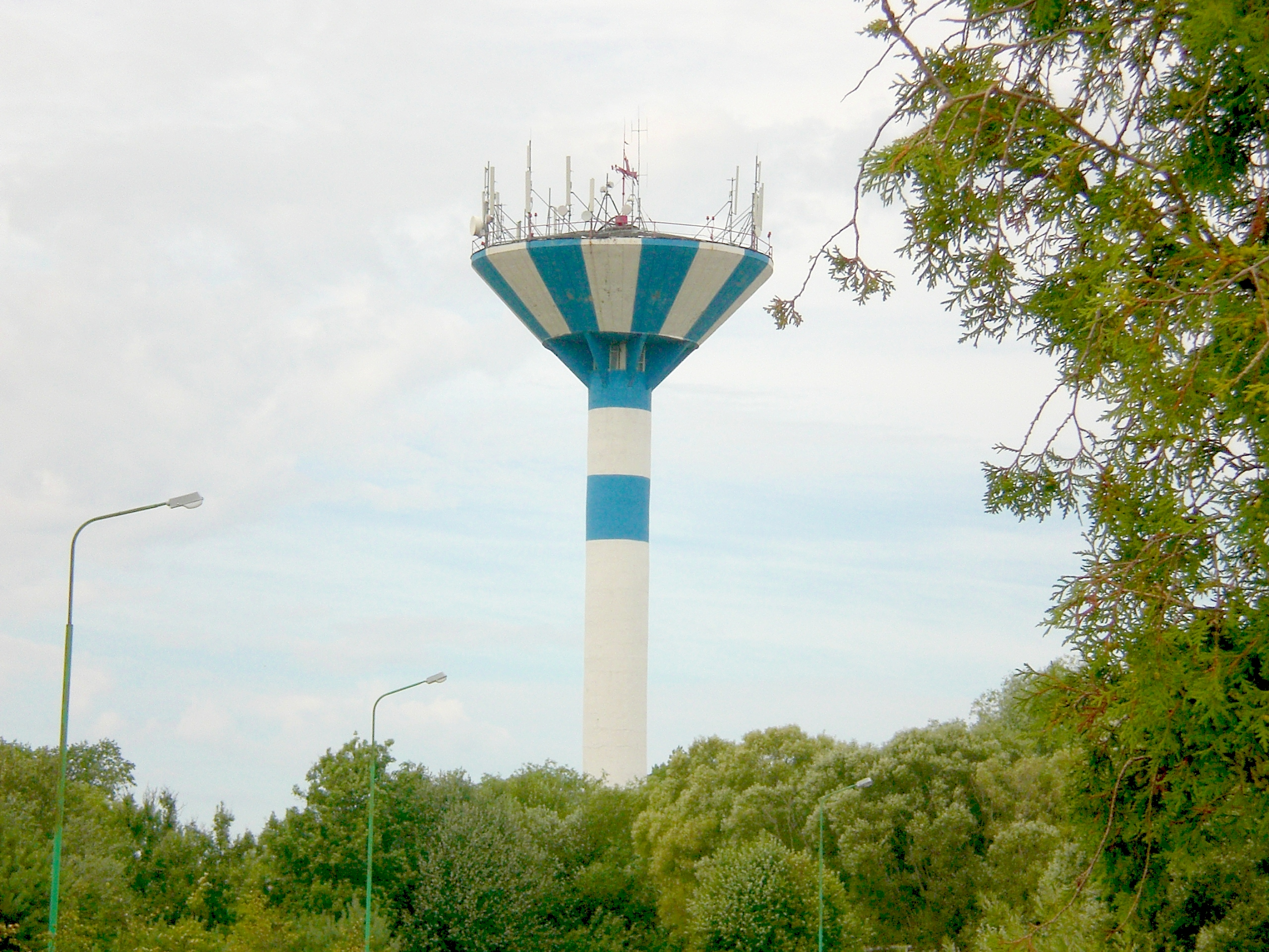 The water tower in the Baltic Sea resort Šventoji, 10 north of Palanga in Lithuania